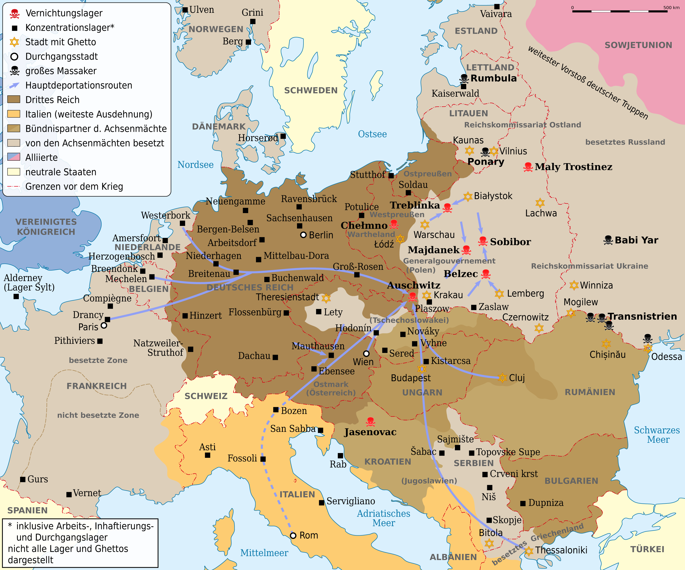 Map of the extermination camps, most of the major concentration camps (labor, detention and transit camp), the main deportation routes, ghettos and places great massacre. Limits about the 1942nd Pre-and post-conflict states name in parentheses